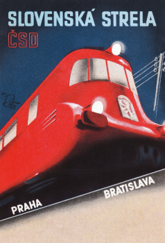 Postcard advertising new ČSD trains 'Slovenská Strela' (Slovak for 'Slovak Arrow') linking Bratislava and Prague, run with fast and comfortable M290.0 motor coaches. Large advertising posters were also created, showing also a timetable. Both posters and postcards were made in 1936 by Atelier Rotter, the biggest advertising studio in Prague at that time.